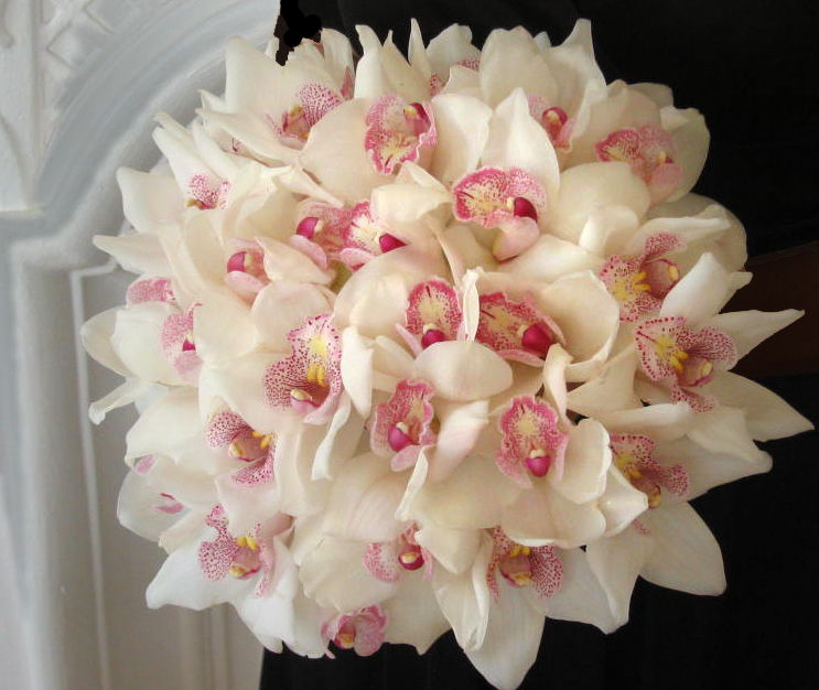 A bridal bouquet fabricated in traditional craftsmanship, using only Cymbidiums